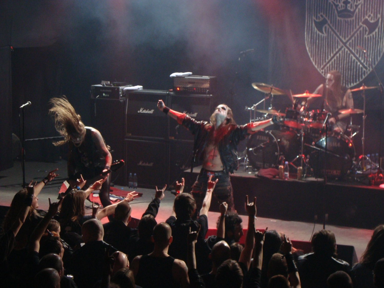 Taake performing live at Royal Metal Fest 2012.